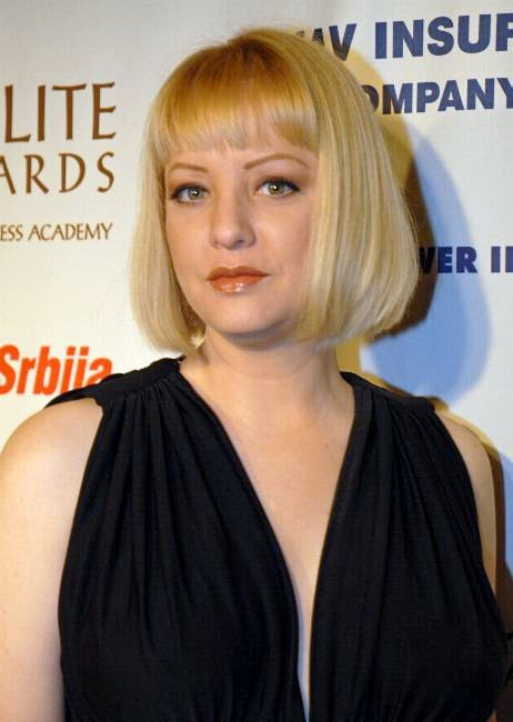 Actress Wendi McLendon-Covey at the International Press Academy’s 12th Annual Satellite Awards